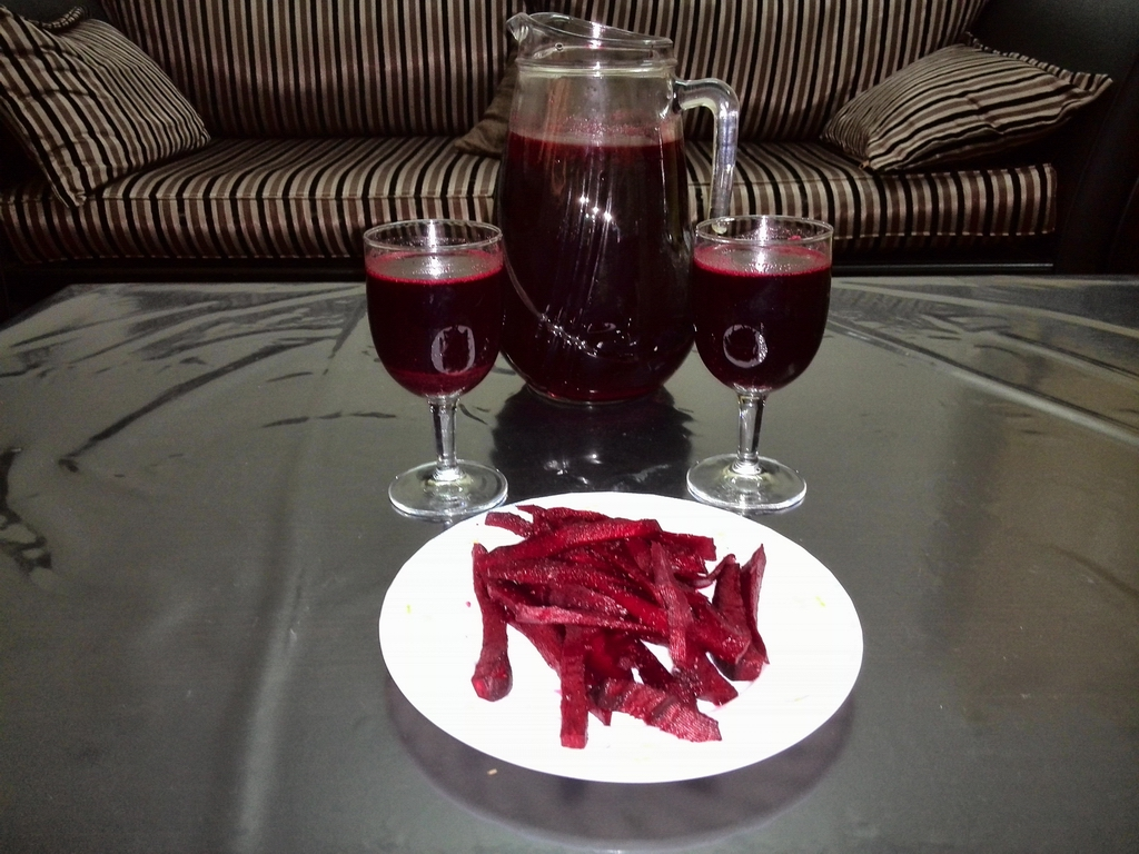 Kanji (drink) 5